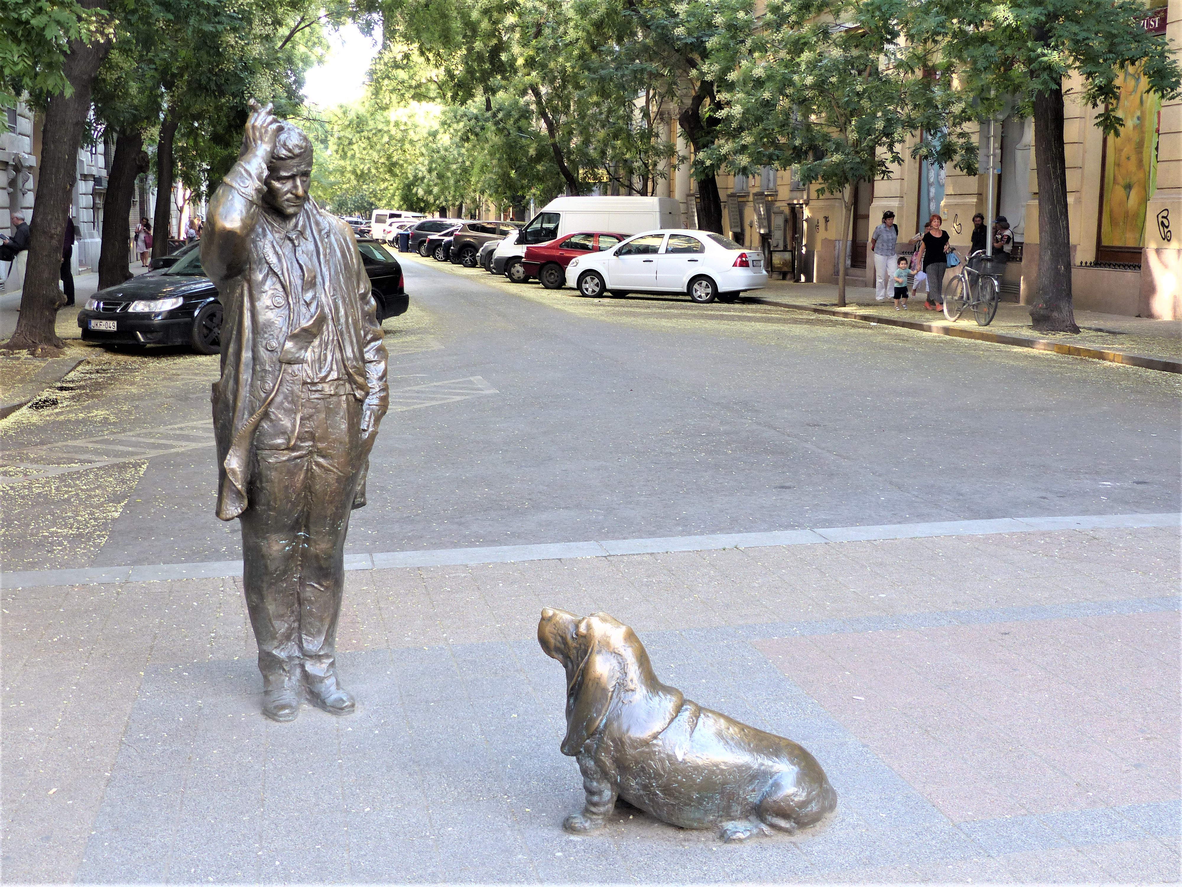 Peter Falk as Columbo with his Dog. Budapest, Central Europe. Timestamp verified.